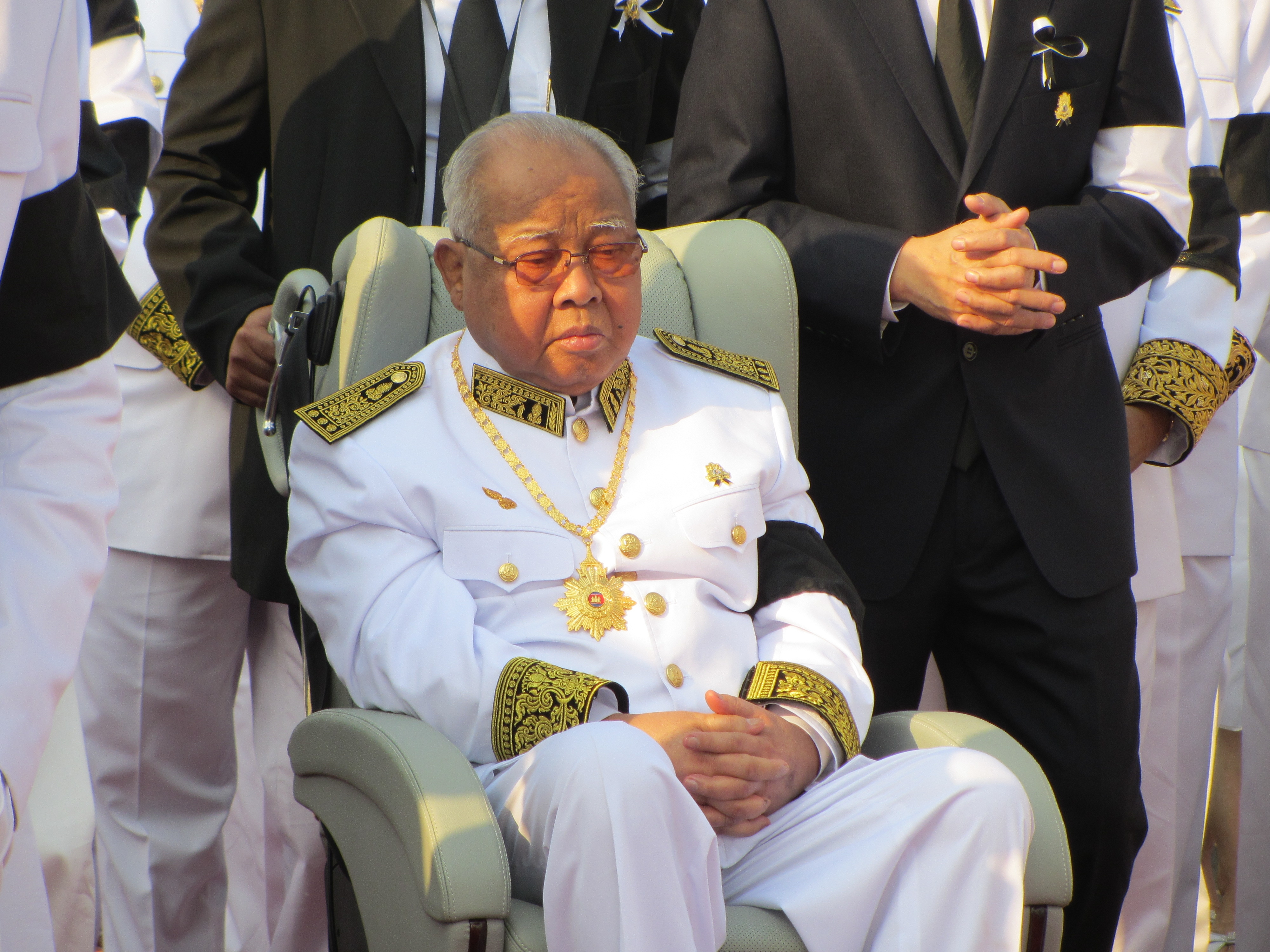 Chea Sim attending Sihanouk's funeral in 2012.